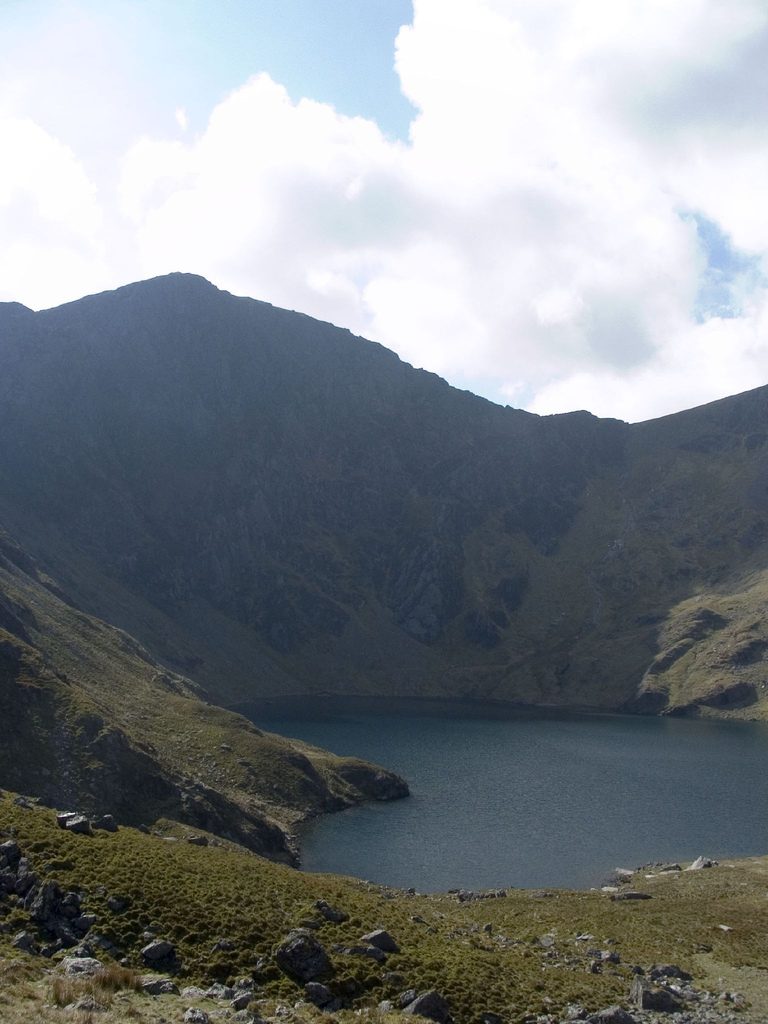 Llyn Cau, Cadair Idris